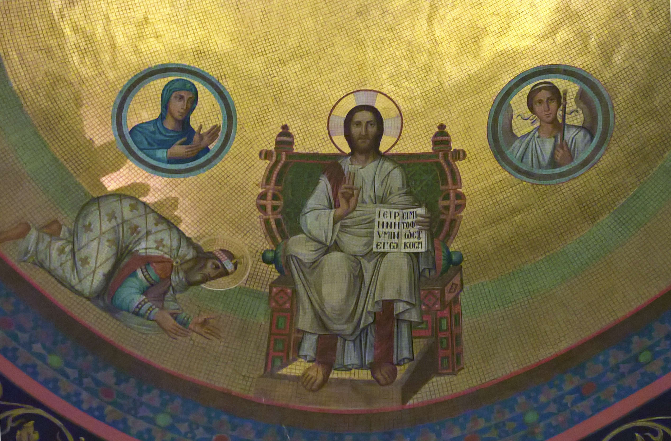 Фрагмент потолка первого литерного зала Государственного Исторического музея. “Византийский зал” выполнен в подражание храму Святой Софии в Стамбуле. В настоящее время зал разделён на две части, в первой показаны предметы церковного искусства православной Руси. Во второй части зала выставлены памятники XII-XIX веков других христианских конфессий